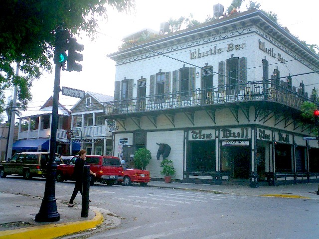 Digital photo taken by Marc Averette 17:03, 6 October 2006 (UTC). The Bull & Whistle bars, downtown Key West